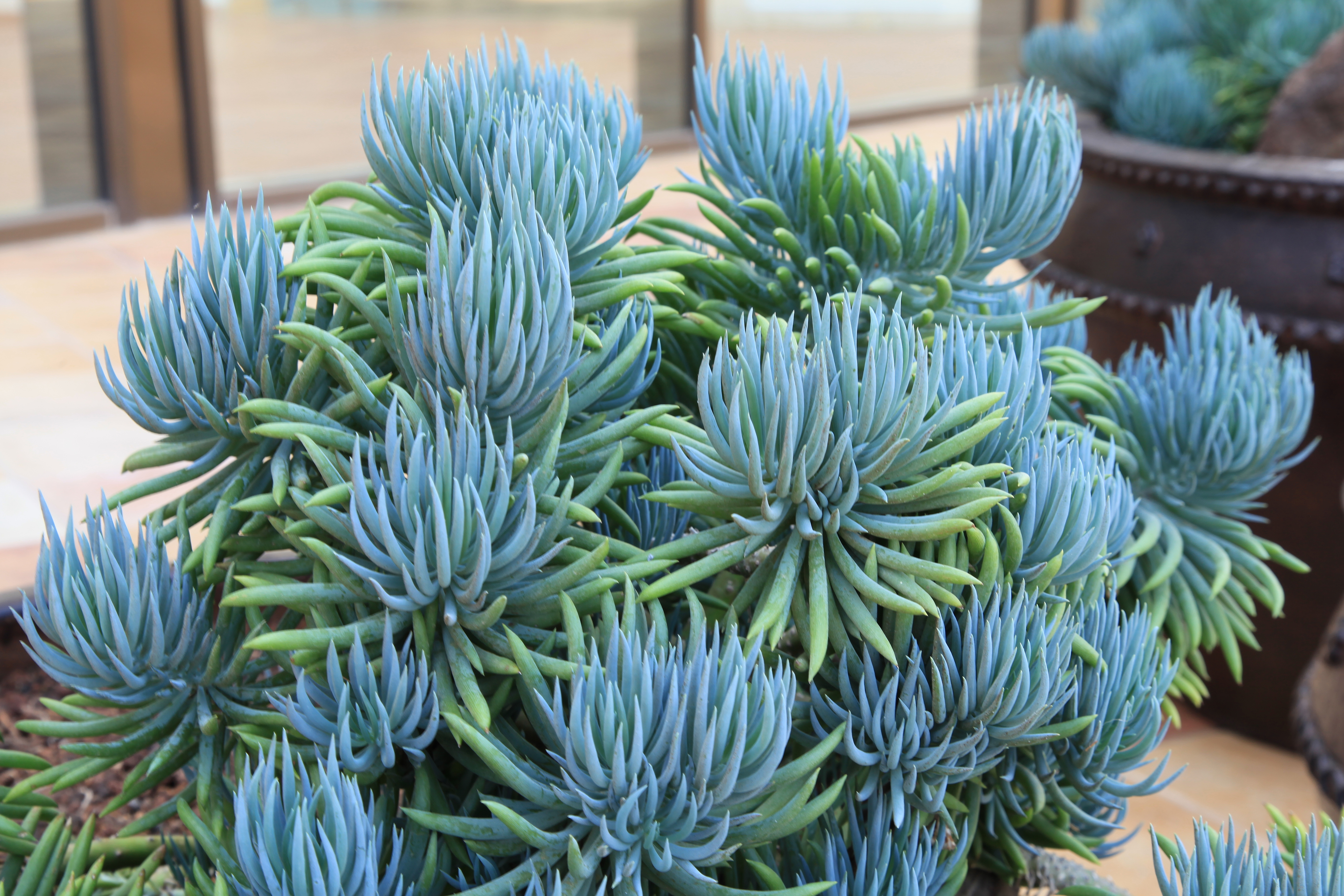 Senecio mandraliscae grown at Hotel Barceló Jandía Mar, Calle Sancho Panza in Morro Jable, Pájara, Fuerteventura, Canary Islands